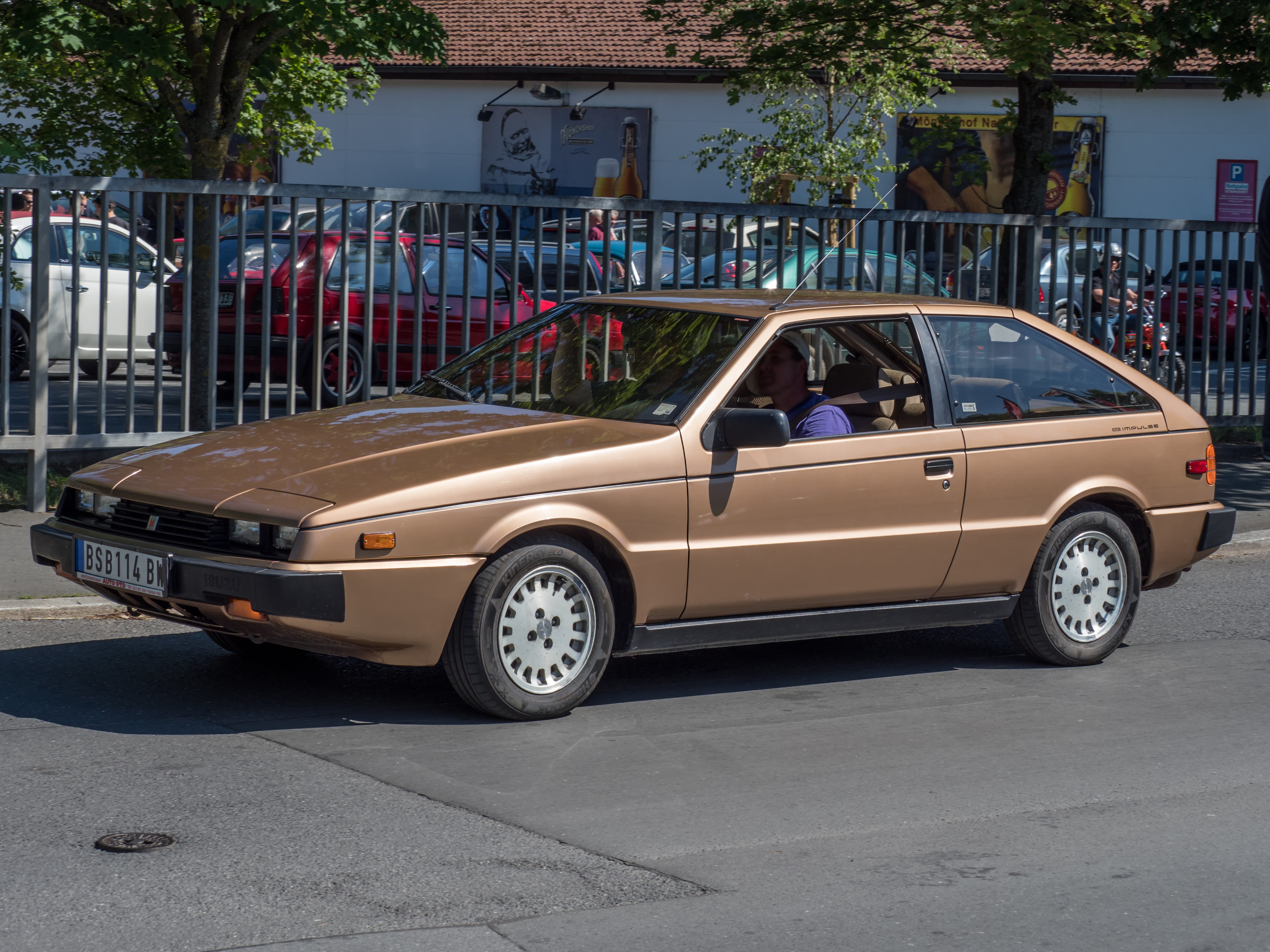 1985 Isuzu Impulse at the Oldtimer meeting in Kulmbach